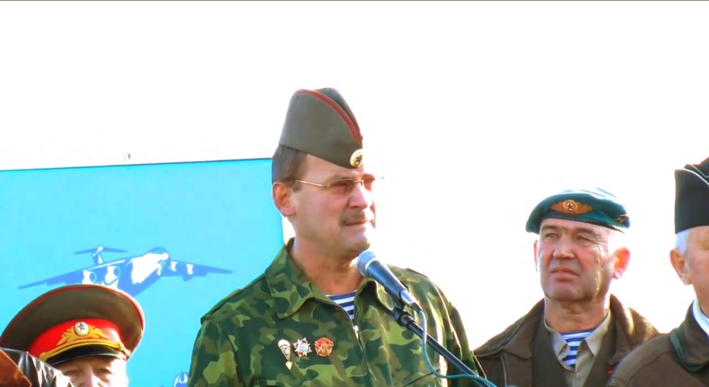 Lt. Col. Stanislav Terekhov at the Veterans Meeting in Moscow on November 7, 2010.